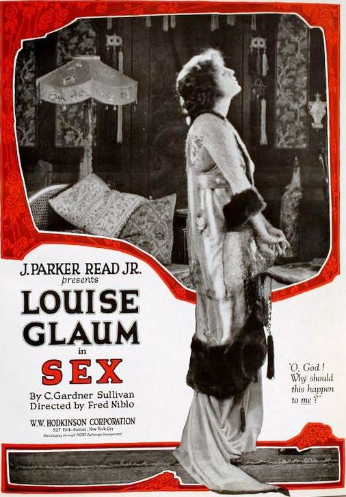 Ad for the American film Sex (1920) with Louise Glaum, on page 3039 of the April 3, 1920 Motion Picture News.